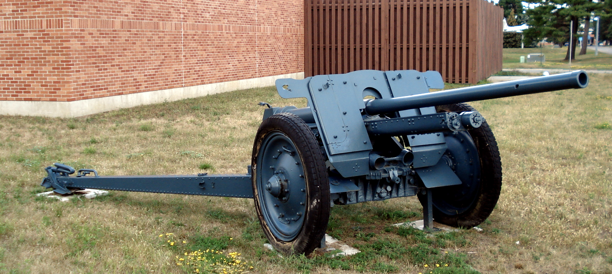 German Pak 36(r) 76,2 mm anti-tank gun, obtained from converting captured Soviet F-22 76 mm guns. This example is displayed on the grounds of CFB Borden (Base Borden Military Museum). Photo taken on August 18, 2006. Source: Photo by me, User:Balcer.